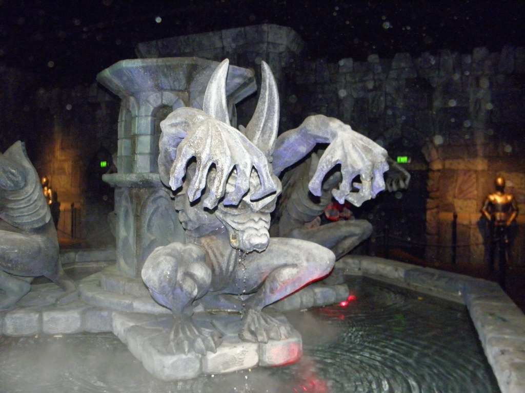 The monster fountain in the Scooby Doo Spooky Coaster queue at Warner Bros. Movie World.